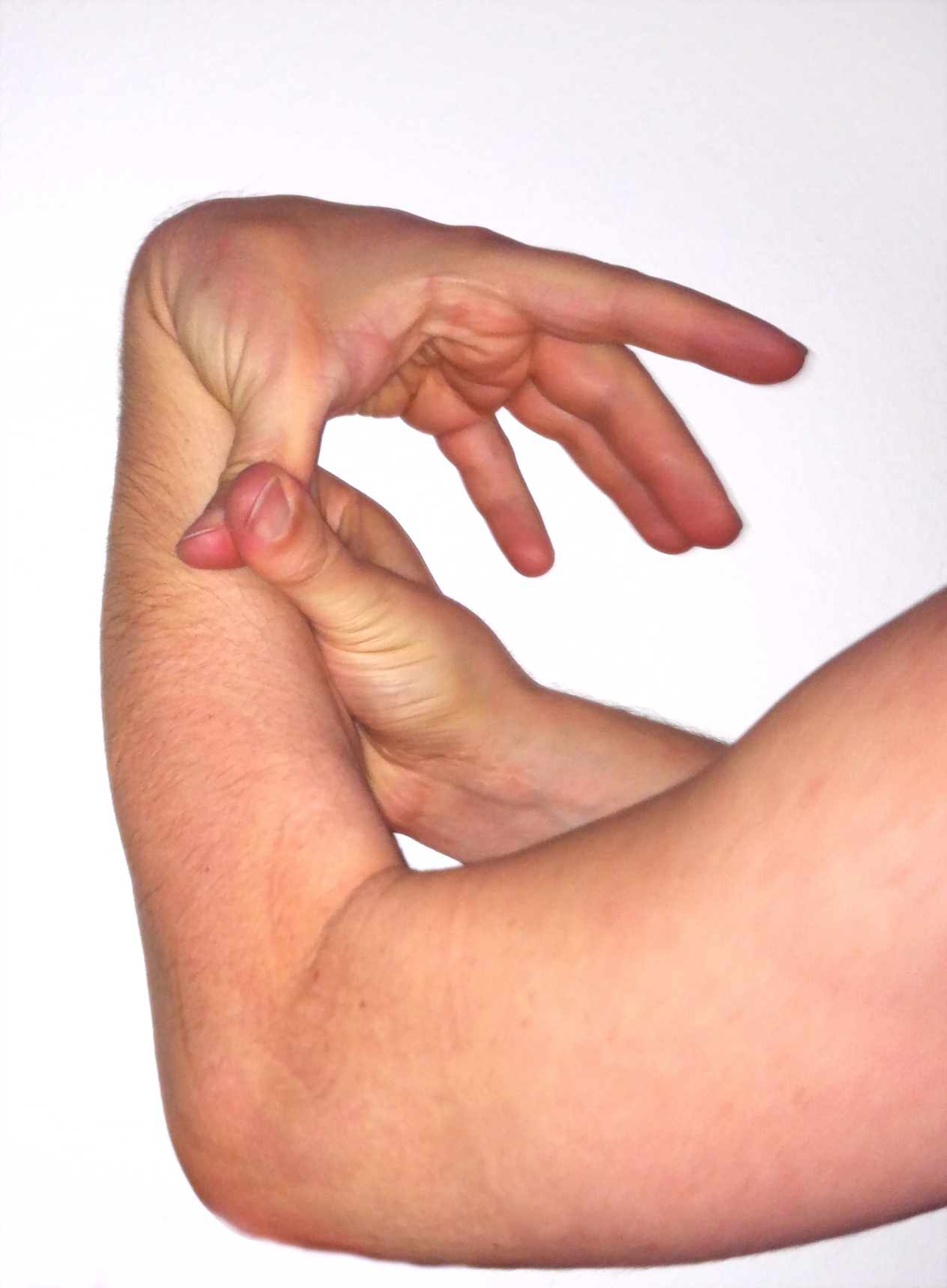 Beighton Score - thumb reaches forearm